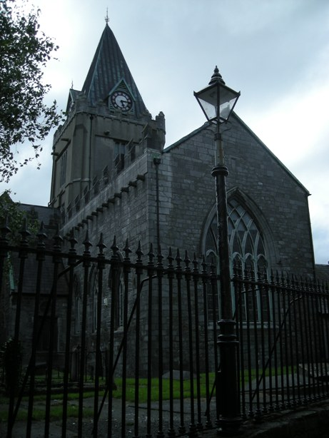 St. Nicholas Collegiate Church, Galway City, Ireland